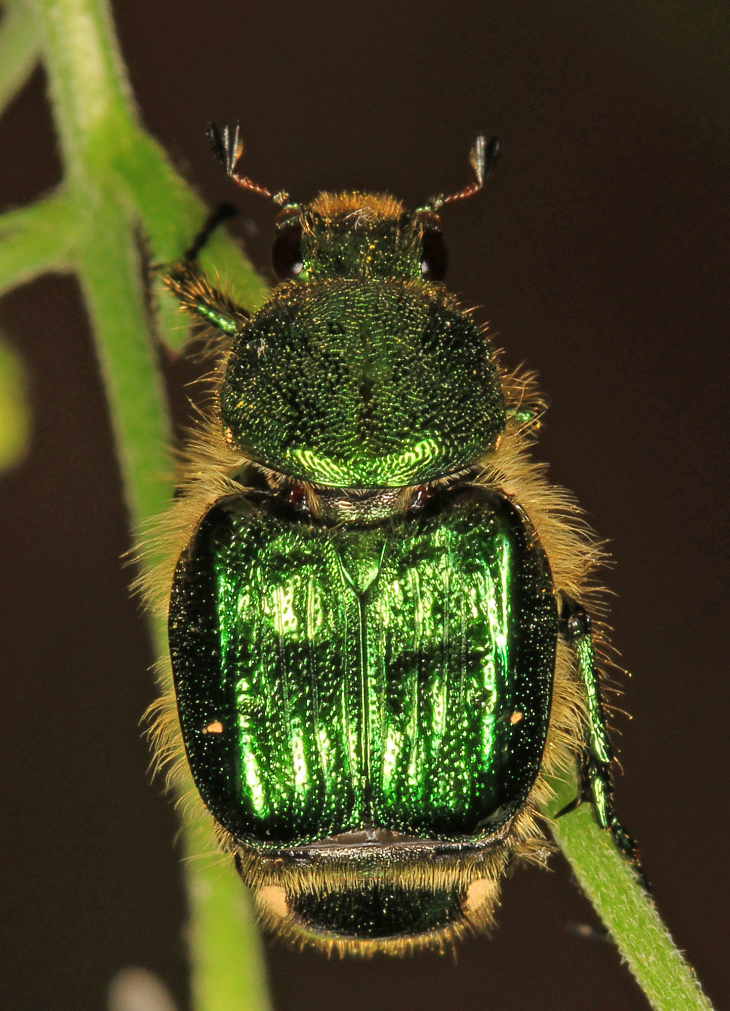 Flower Chafer - Trichiotinus lunulatus, Big Thicket National Preserve, Kountze, Texas